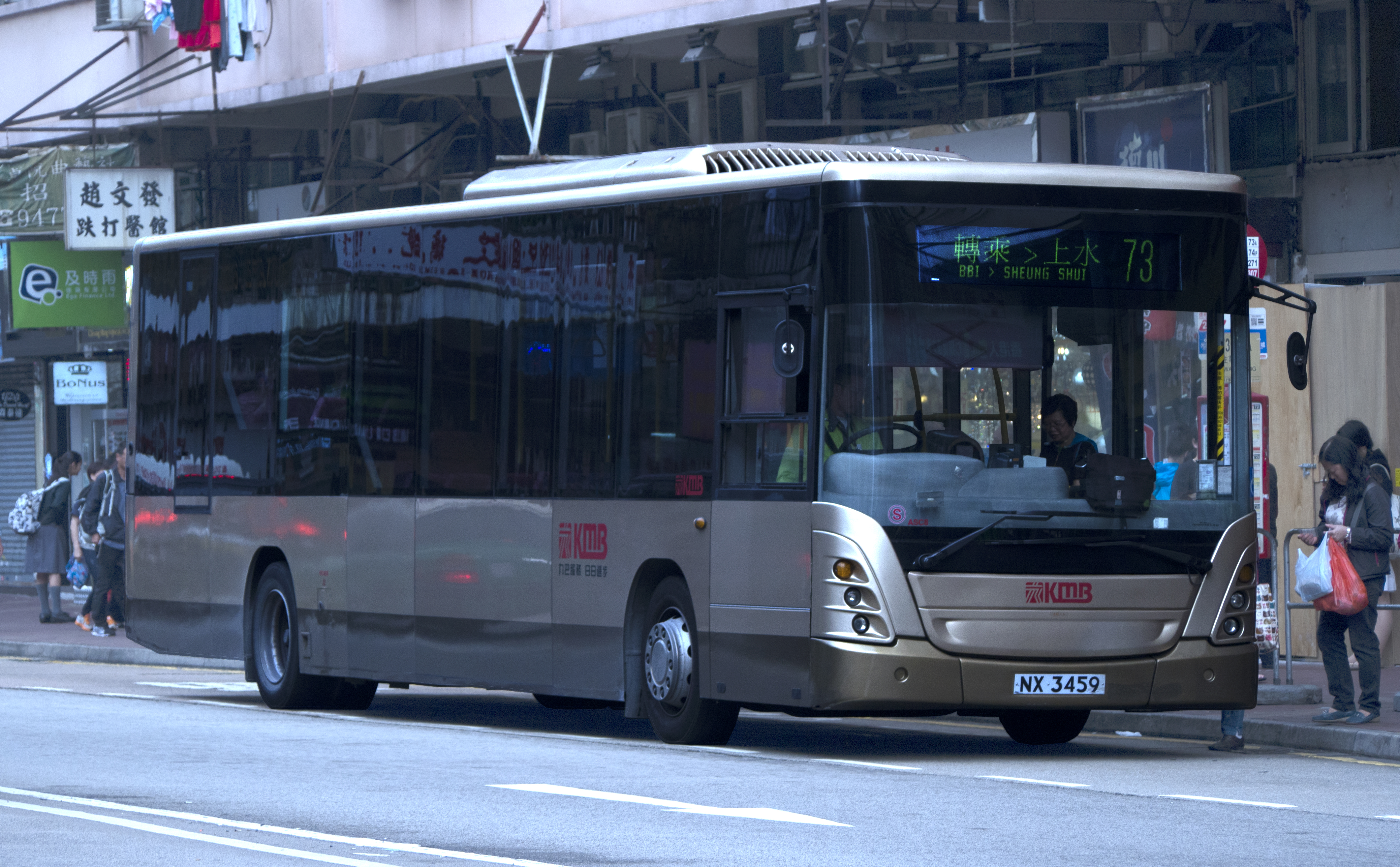 KMB Scania K230UB 中文（香港）: 九巴斯堪尼亞K230UB